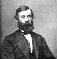 Amos Myers, US Representative from Pennsylvania